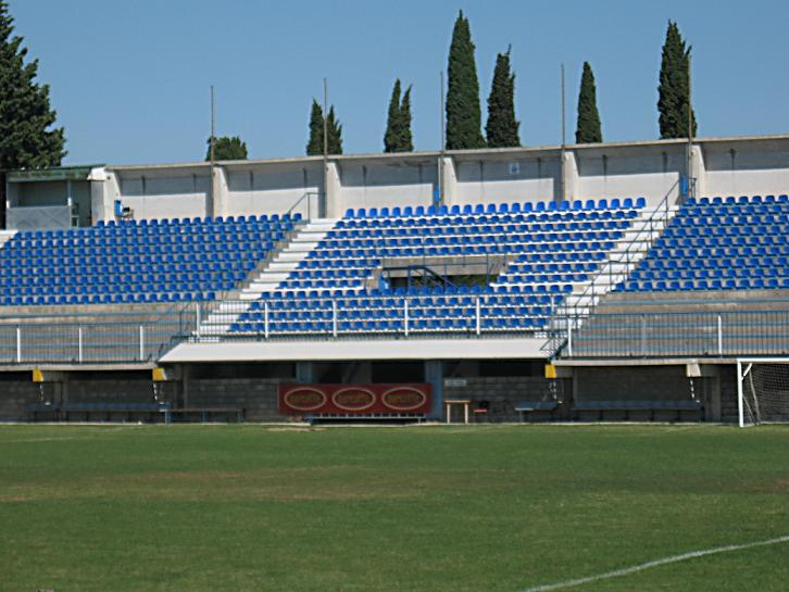 Izola city stadium, home of FC Bonifika Izola, east - closeup